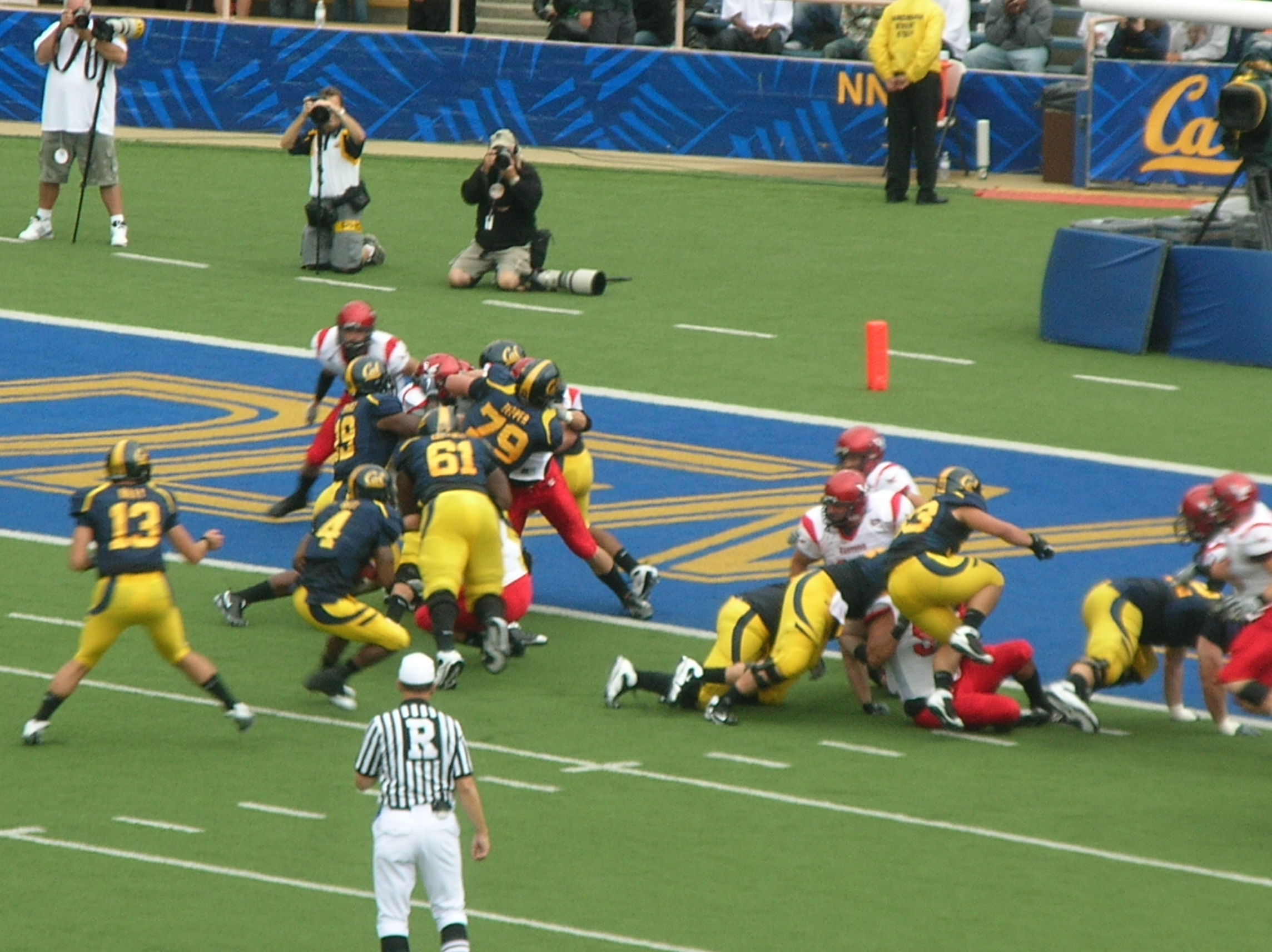 Cal running back Jahvid Best (#4) carries the ball during the second game of the Golden Bears' 2009 season at home against the Eastern Washington Eagles. Best scored a touchdown on this run. The Golden Bears won 59-7.